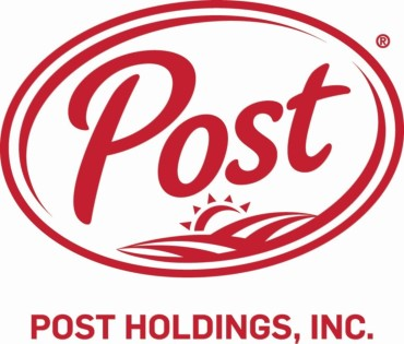 Post Holdings, Inc. logo